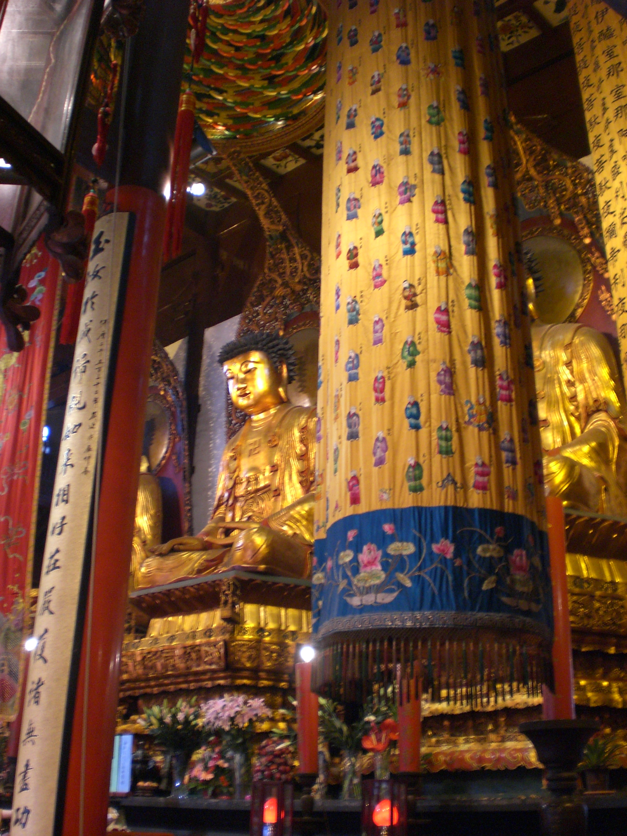 Shanghai, Jade Buddha Temple, 1918